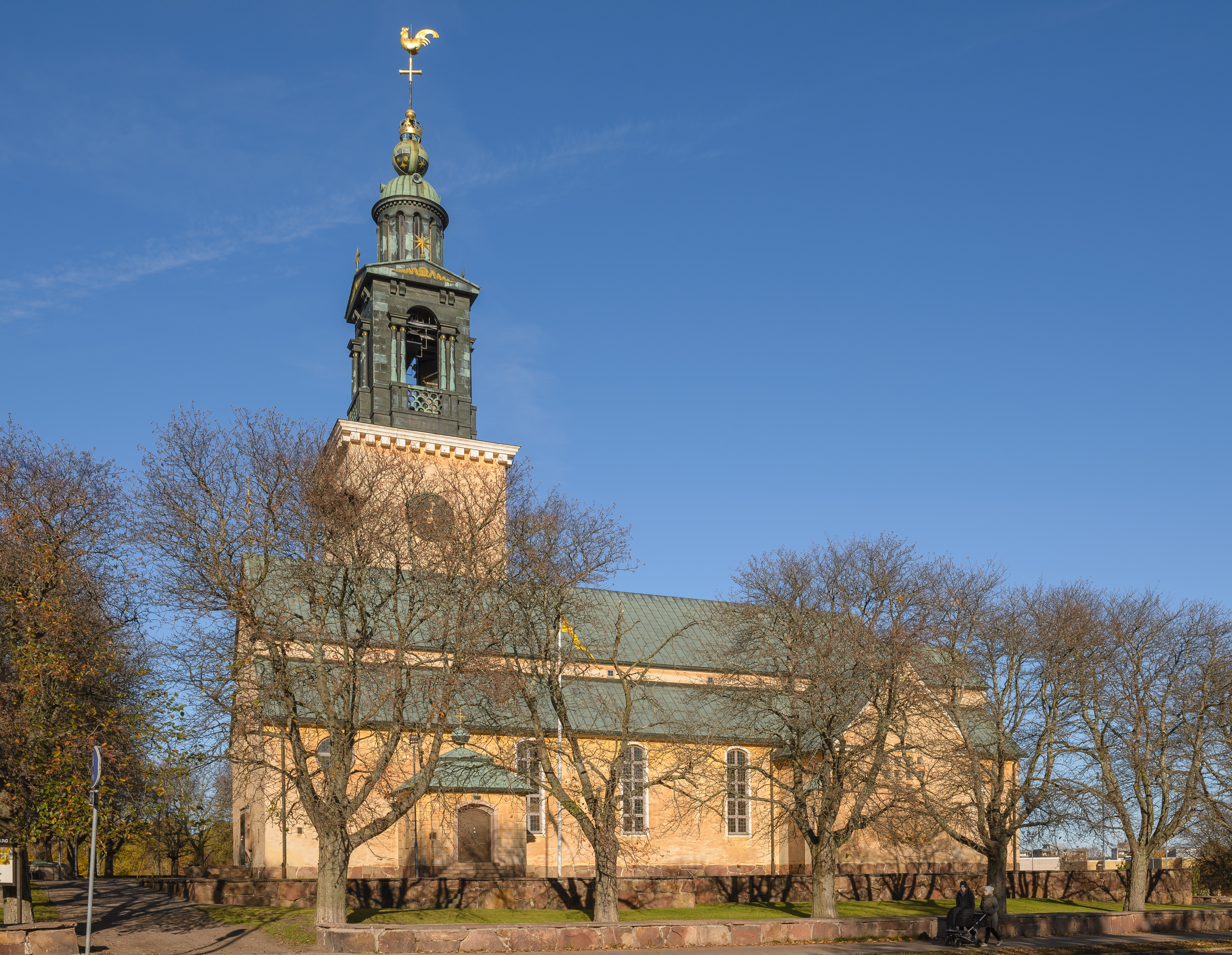 Staffans kyrkan (Staffan church), Gävle. Built 1930-32, architect Knut Nordenskjöld. Church of Sweden.